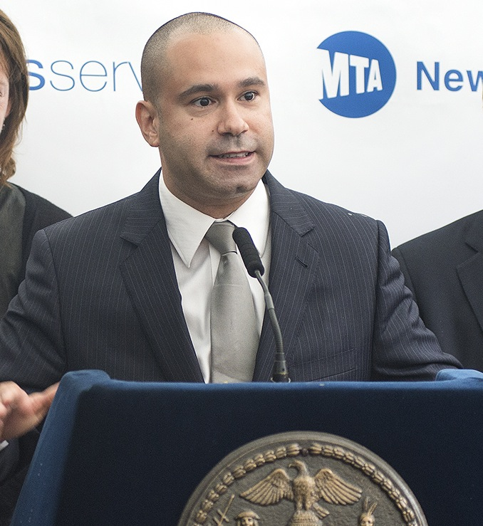 MTA Chairman and CEO Thomas F. Prendergast was jointed by Mayor Michael R. Bloomberg, NYC Transportation Commissioner Janet Sadik-Khan, and City Councilman Joel Rivera to mark the launch of Select Bus Service on the Bx41 bus route in the Bronx. Photo: Metropolitan Transportation Authority / Patrick Cashin.